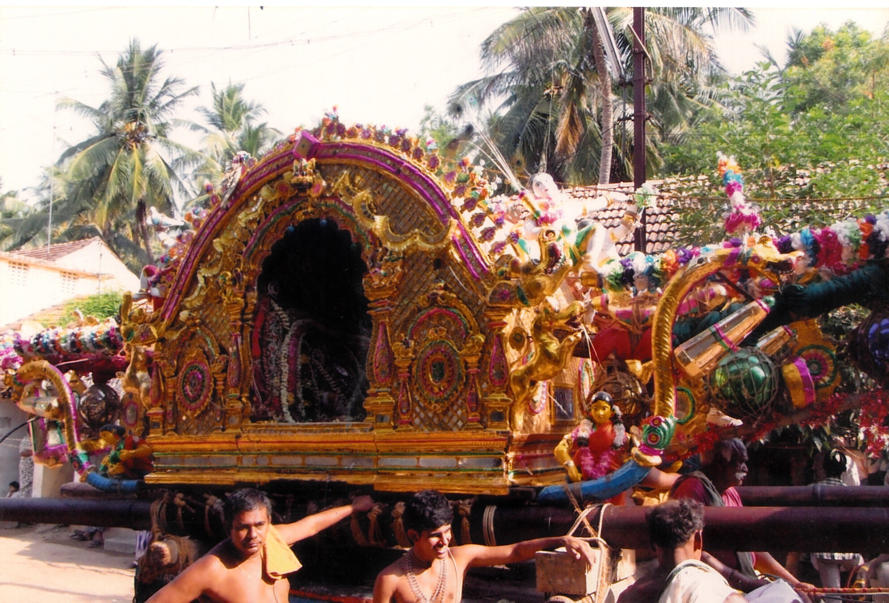 திருவேதிகுடி பல்லக்கு, திருவையாறு சப்தஸ்தான விழா, ஏப்ரல் 2008